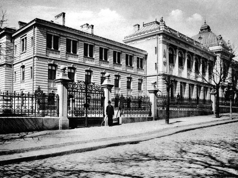 University of Iaşi